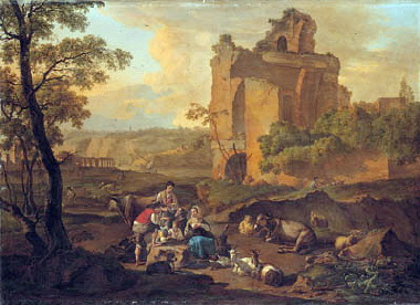 Nicolas de Fassin, Italianate landscape with peasants resting near a ruin (Christies)